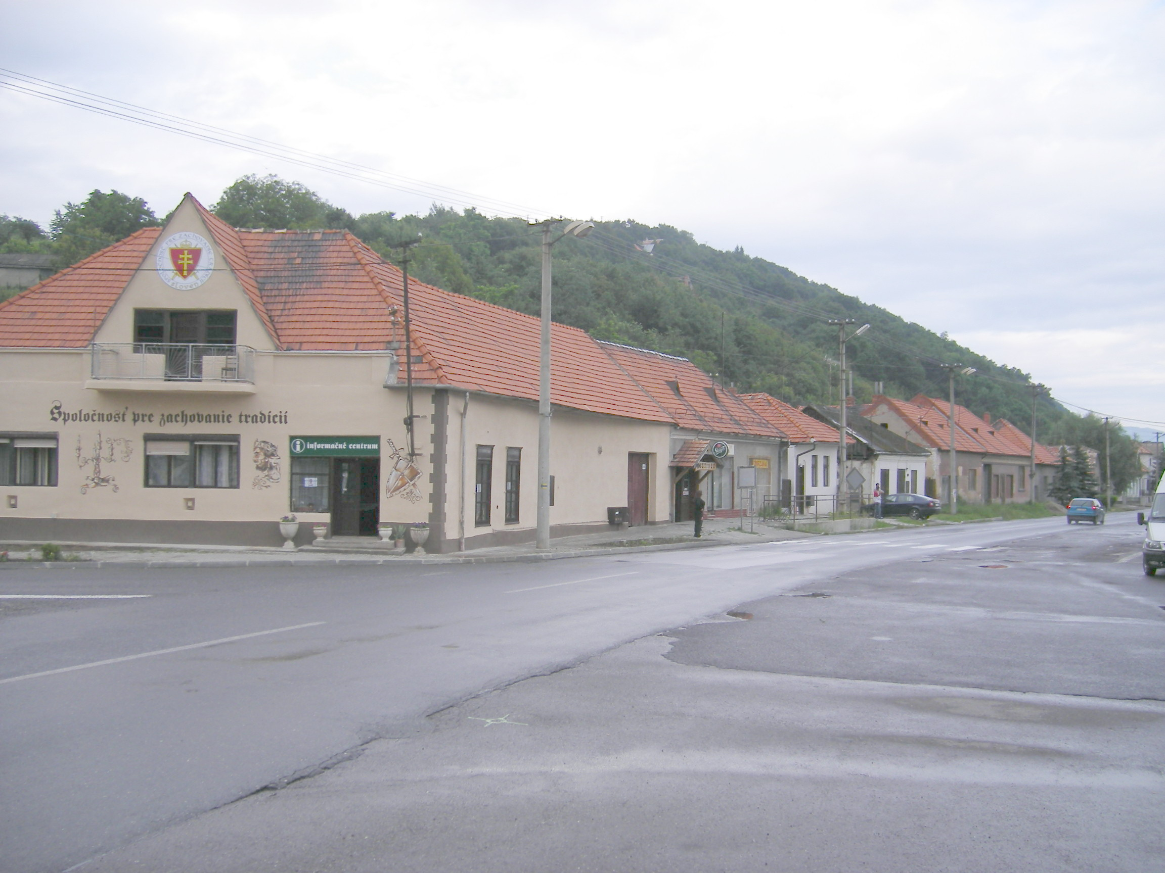 Village Hronský Beňadik in Žarnovica district, Slovakia.